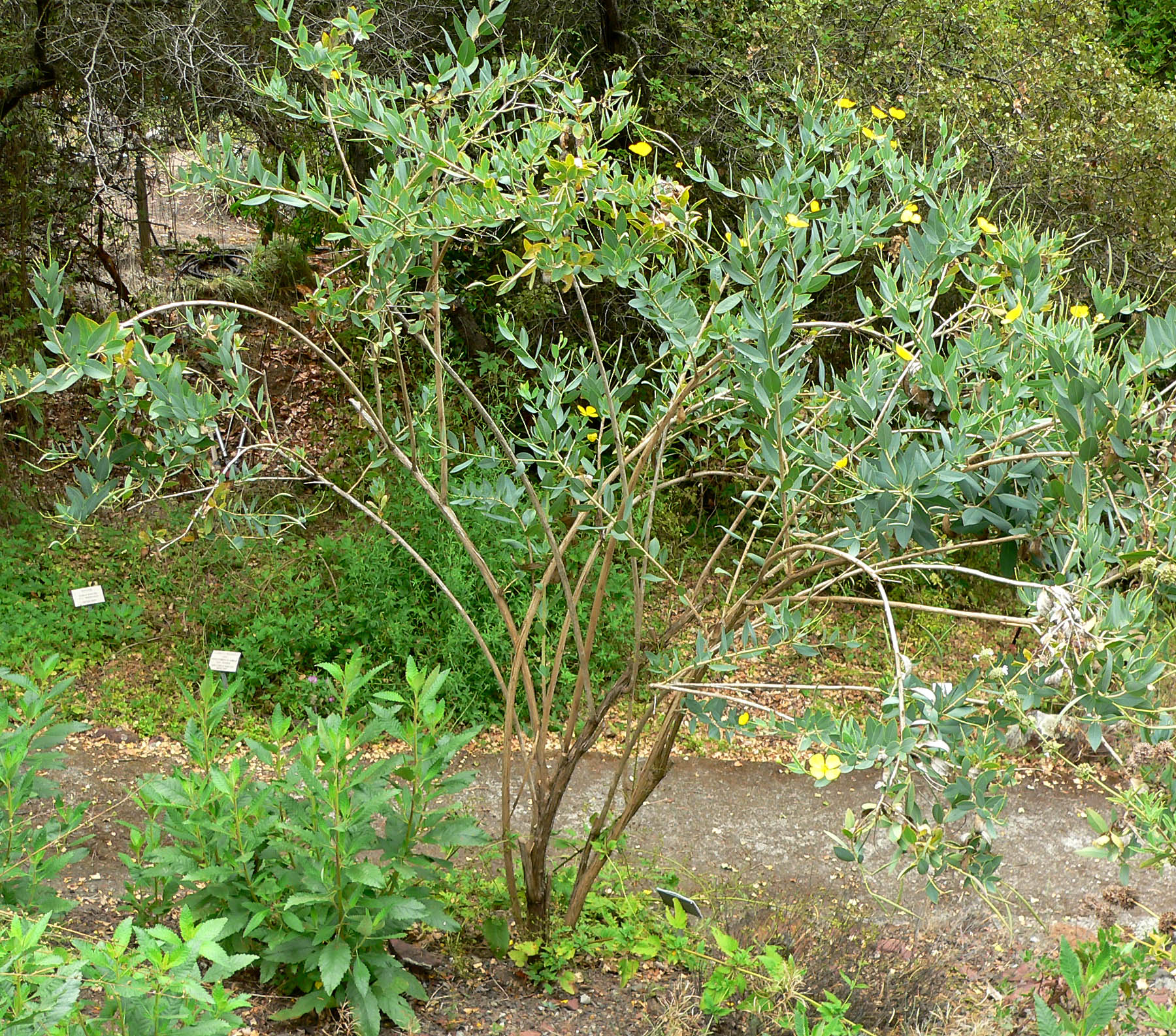 Dendromecon harfordii (Channel Island Tree Poppy), cultivated in the Regional Parks Botanic Garden in the Berkeley Hills, California.